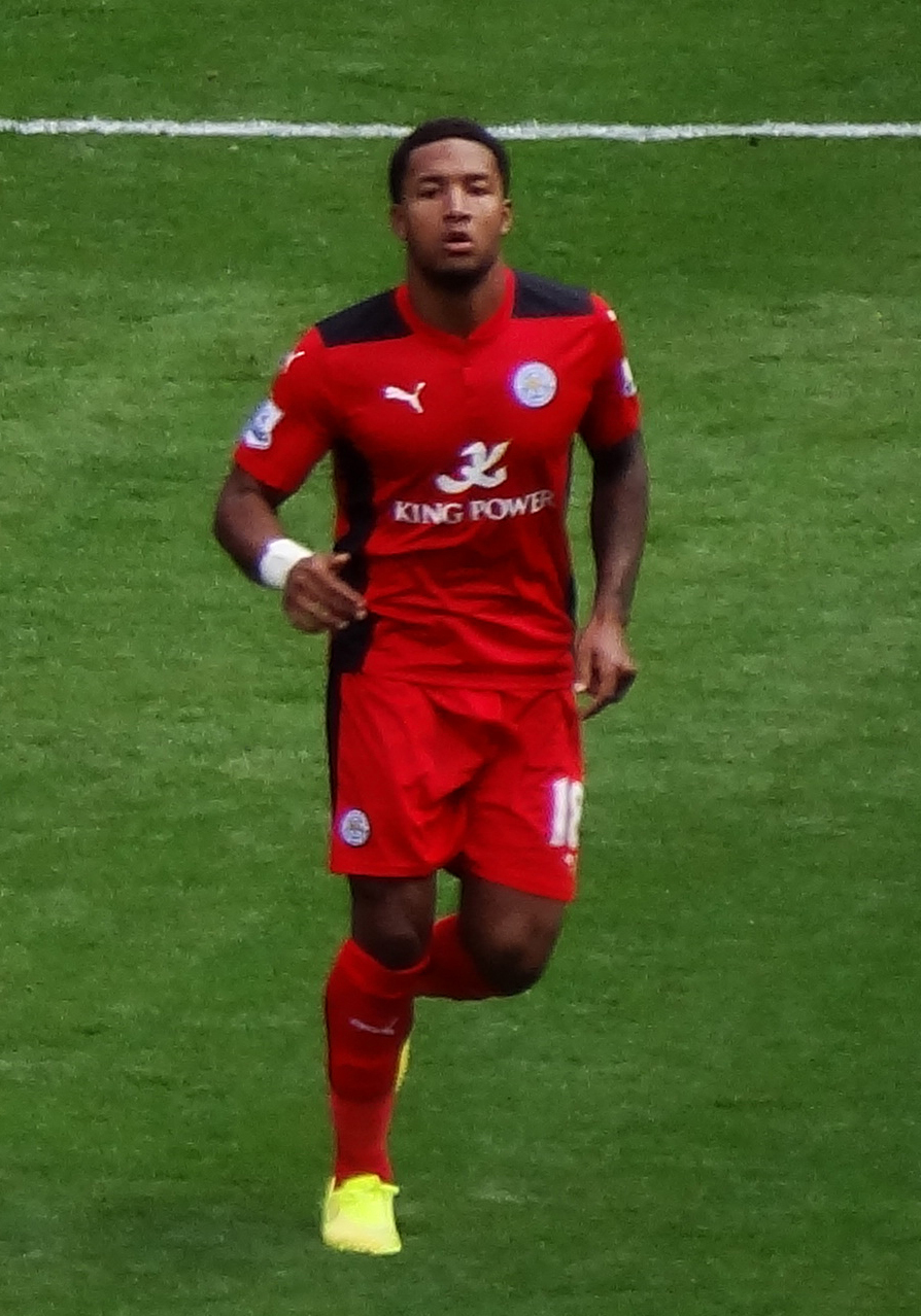 Liam Moore of Leicester City. Cropped from another picture